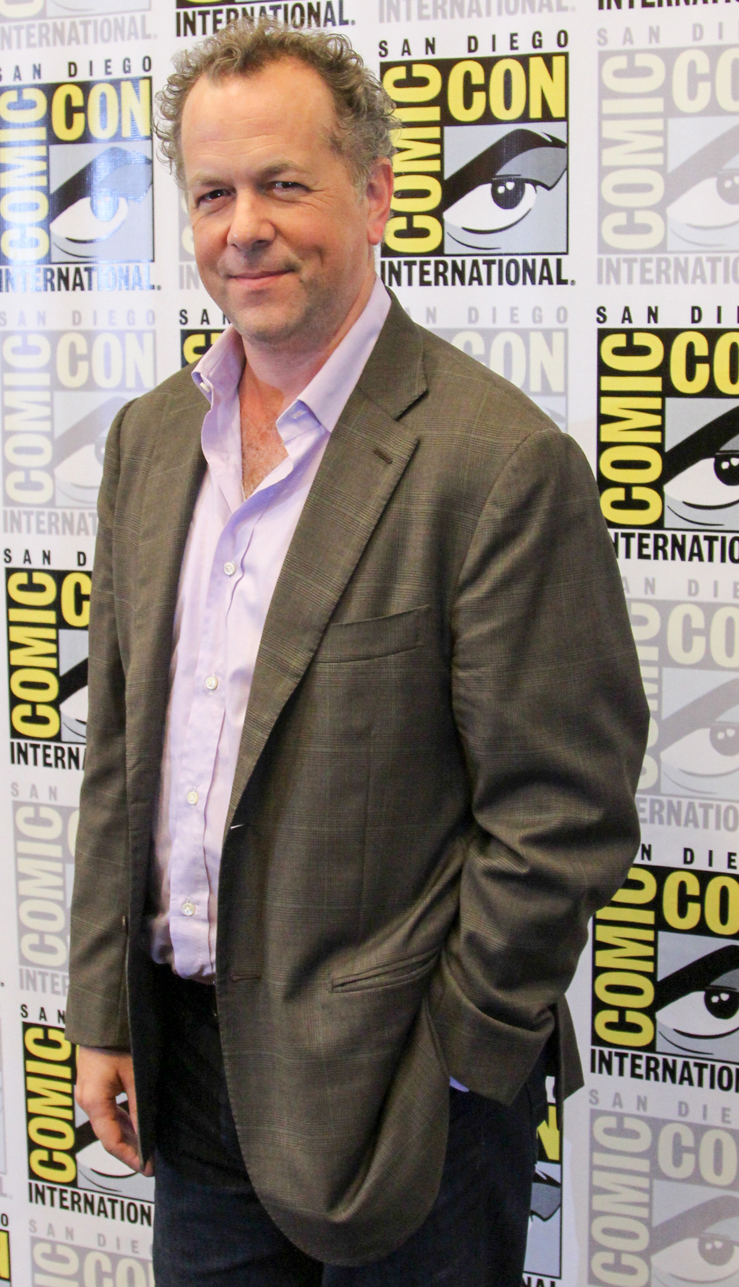 American actor David Costabile at the 2014 San Diego Comic-Con.